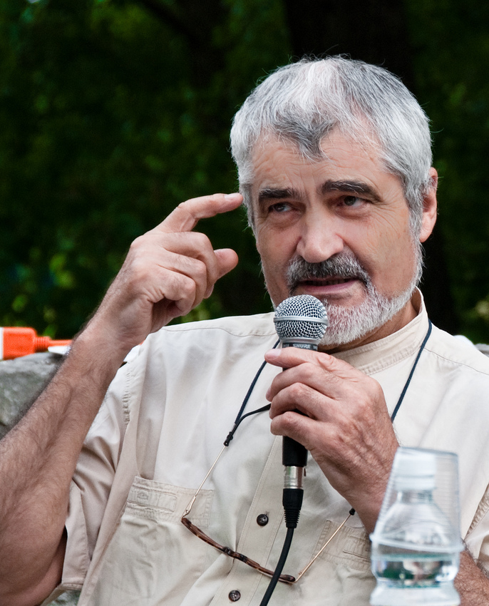 Serge Latouche.